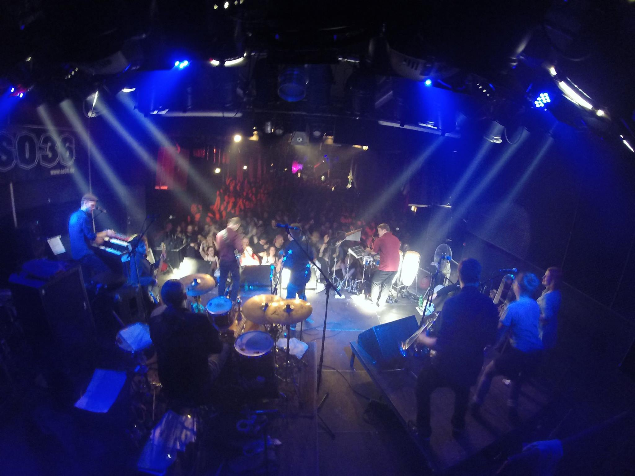 BBO Live at SO 36